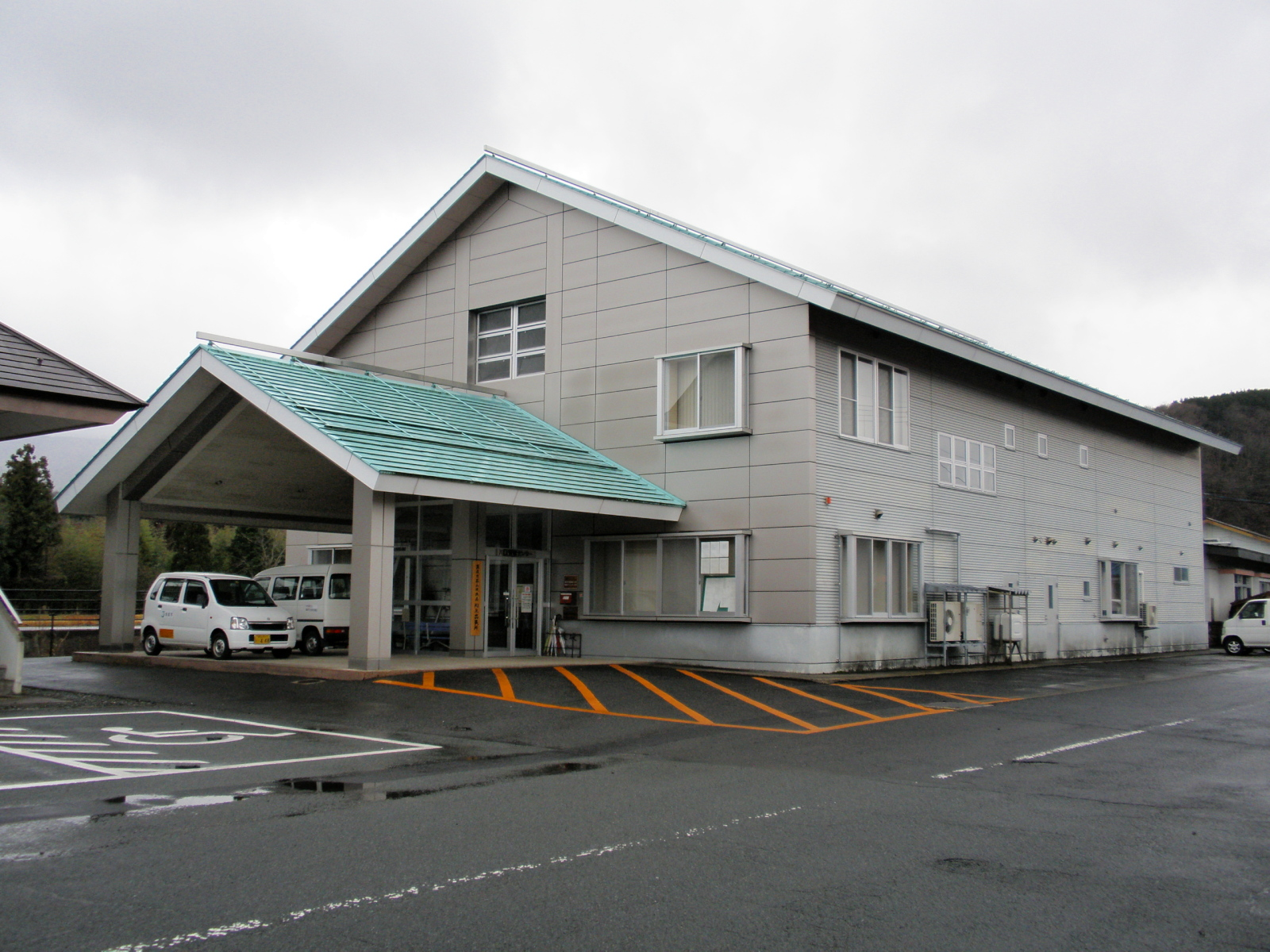 Maniwa city office Hiruzen regional promotion bureau Kawakami branch